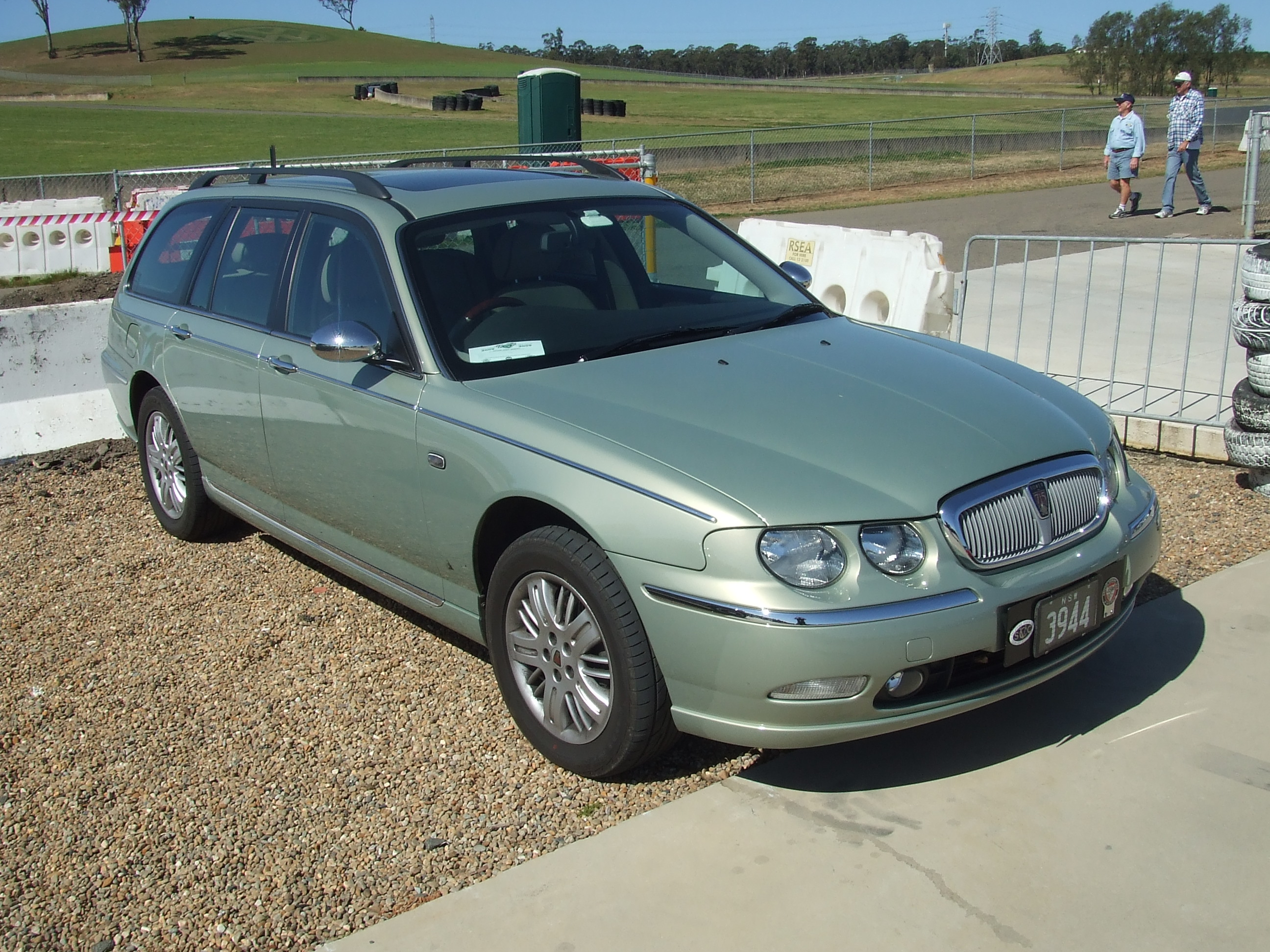 Rover 75 Wagon